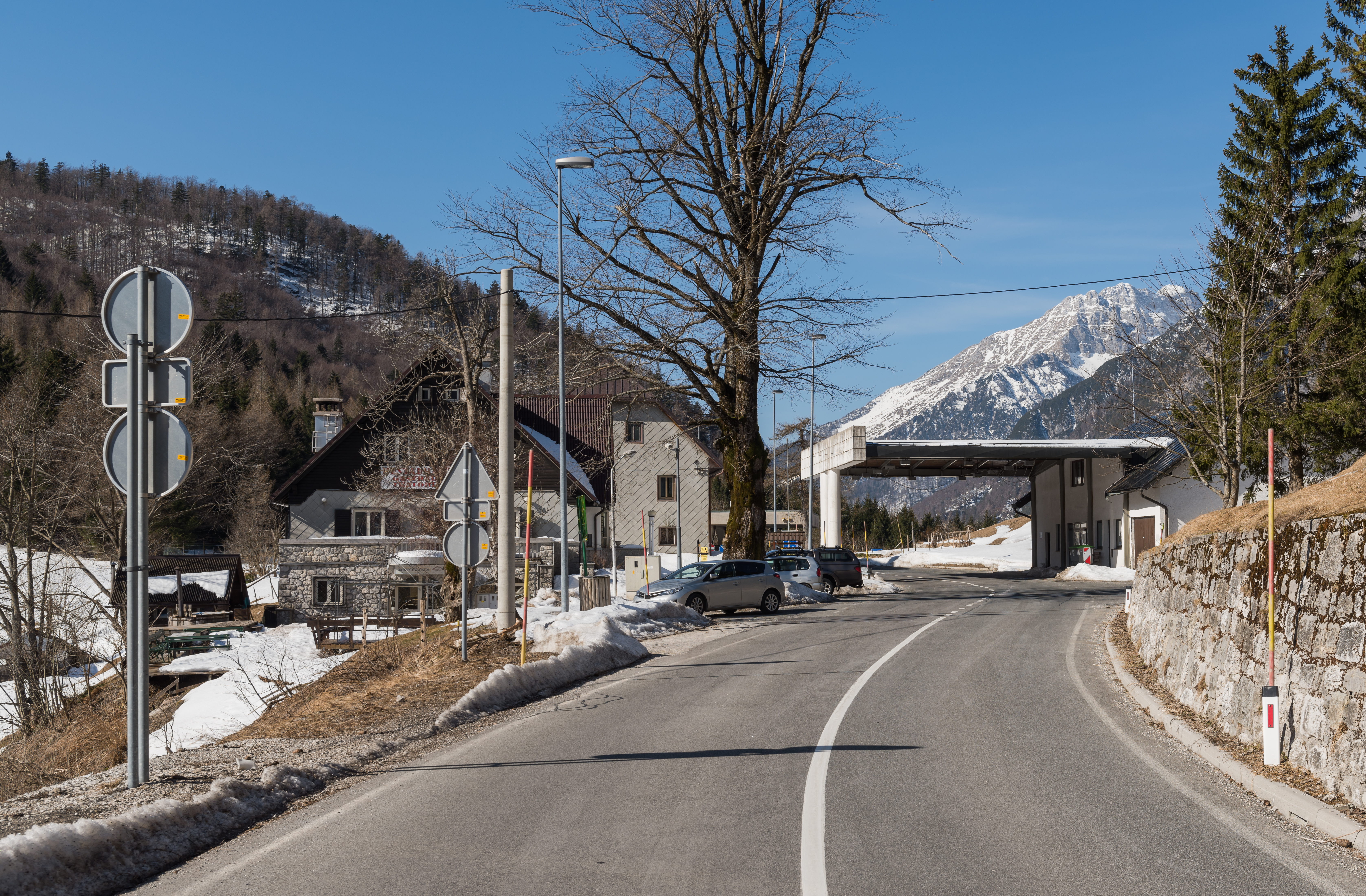 Predil Pass with restaurant Hermanov and customs clearance at the Italian frontier, Strmec na Predelu, municipality Bovec, Littoral, Slovenia, EU